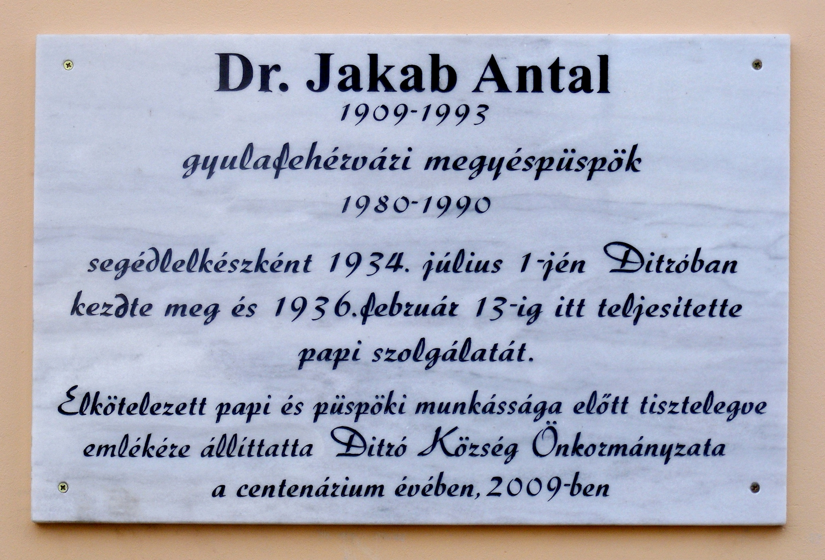 Commemorative plaque to the Rt Rev. Jakab Antal (1909-1993) Catholic Bishop of Transylvania affixed on the square bearing his name in Ditrău where he served as vicar between 1934 and 1936. It was unveiled on 31 August 2009. (place Dr. Jakab Antal, Ditrău [Romania])